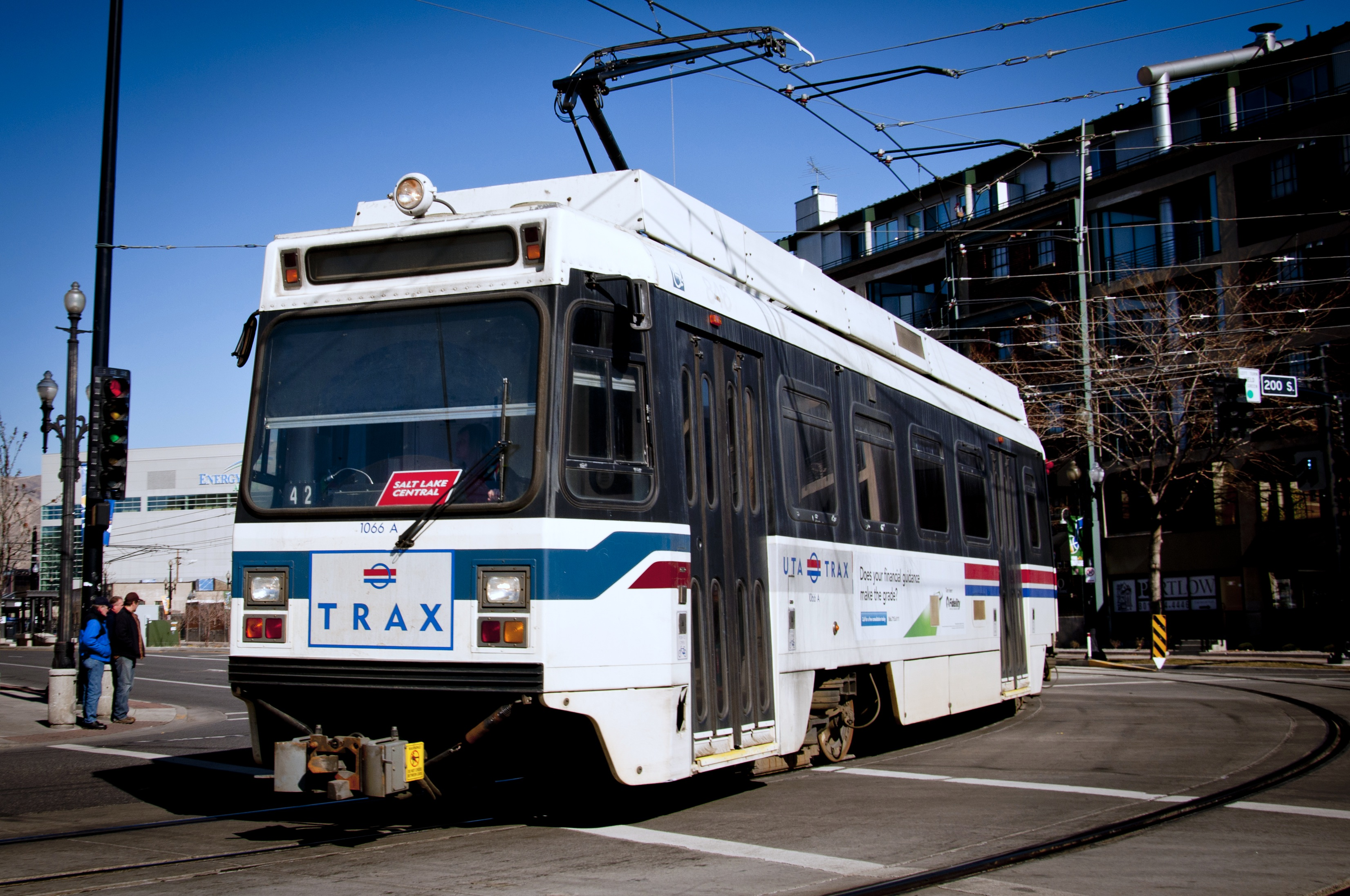 UTDC-built TRAX light rail car 1066, ex-San Jose and still painted in Santa Clara Valley Transportation Authority colors but with "TRAX" logos added, turning onto "200 South" from "400 West" (from southbound to westbound), in Salt Lake City. These are from an order of 50 LRVs (light rail vehicles) built in 1987 for the Santa Clara County Transportation Agency (later merged with another entity to become the Santa Clara Valley Transportation Authority).